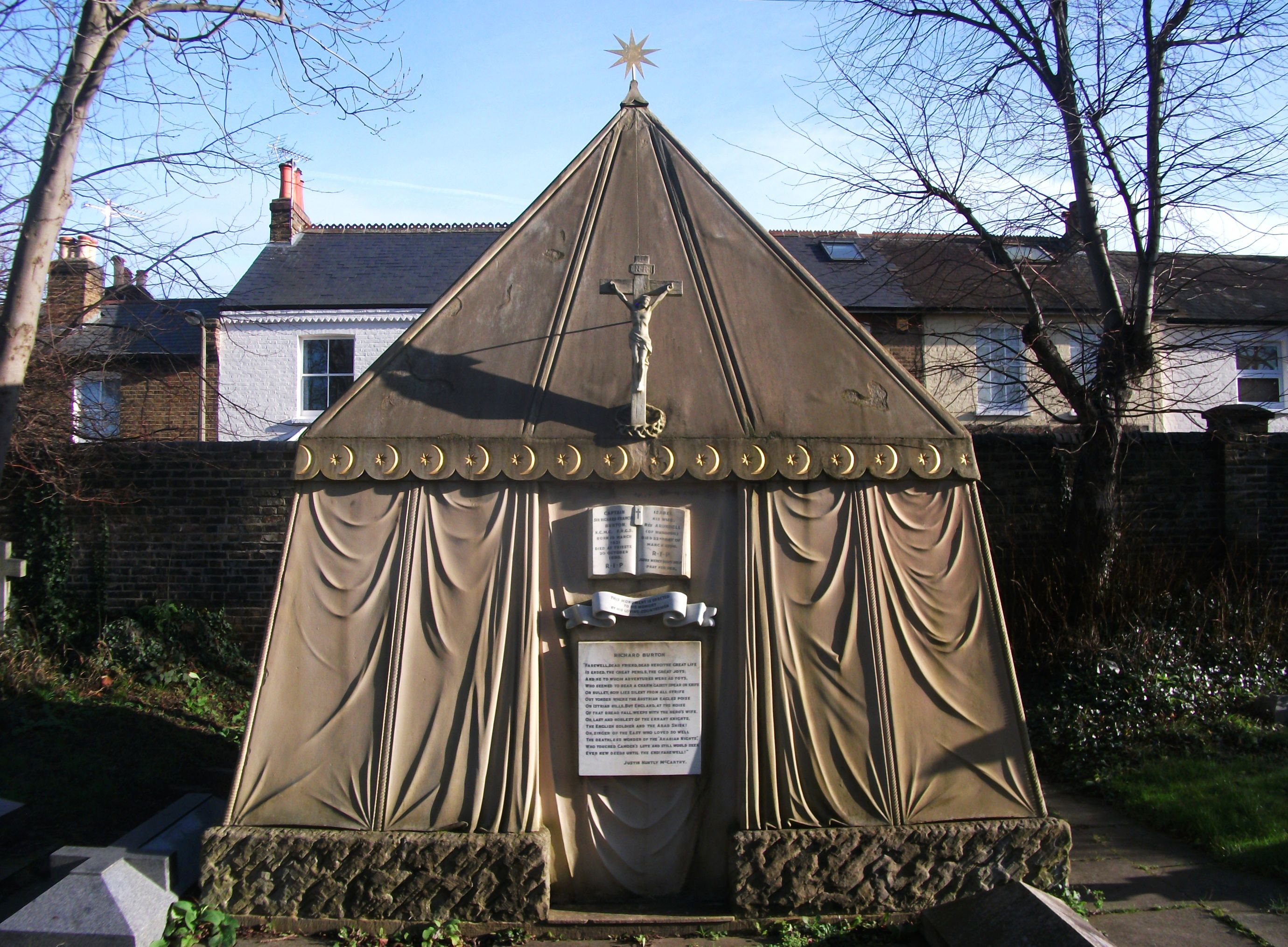 Richard Burton's tomb in Mortlake (London).